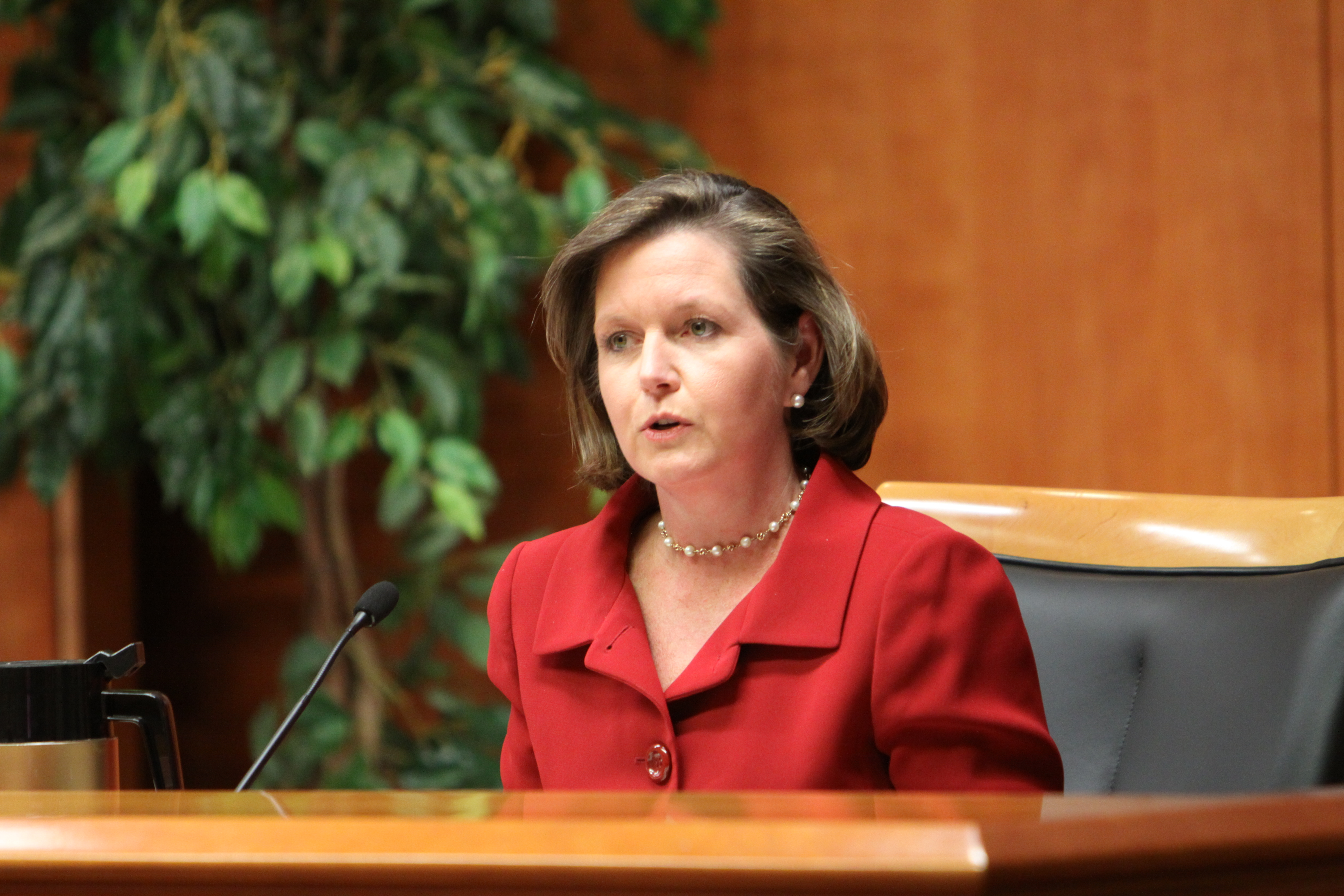 Commissioner Meredith Attwell Baker